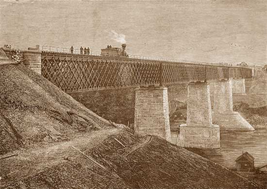 Bridge over the Msta river. Moscow-Saint Petersburg Railway.